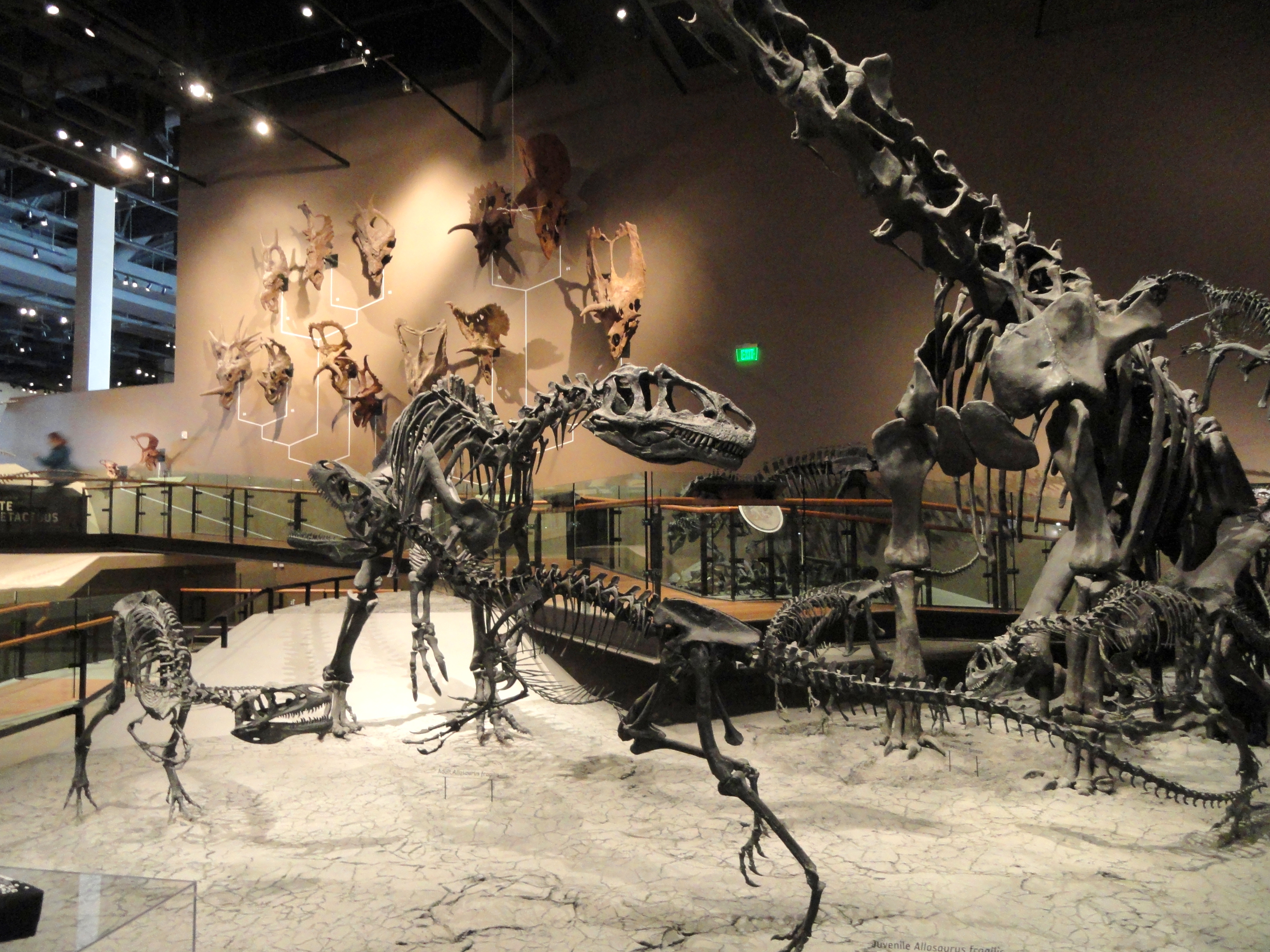 Fossil specimen in the Natural History Museum of Utah, Salt Lake City, Utah, USA.